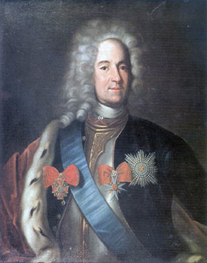 Alexander Danilovich Menshikov (1673-1729)